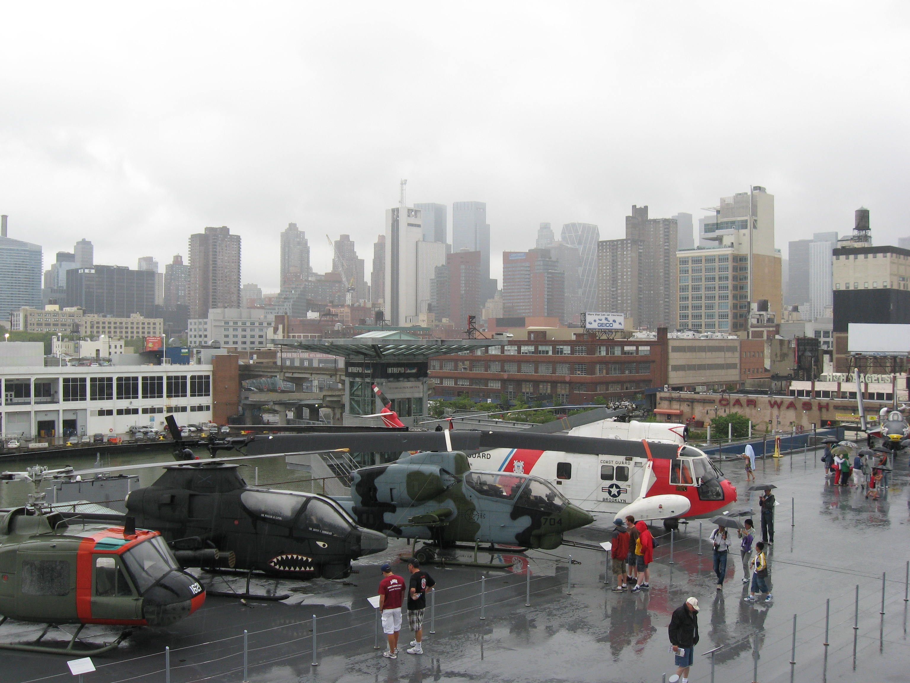 Intrepid Sea, Air & Space Museum in New York City, with Manhattan in the background